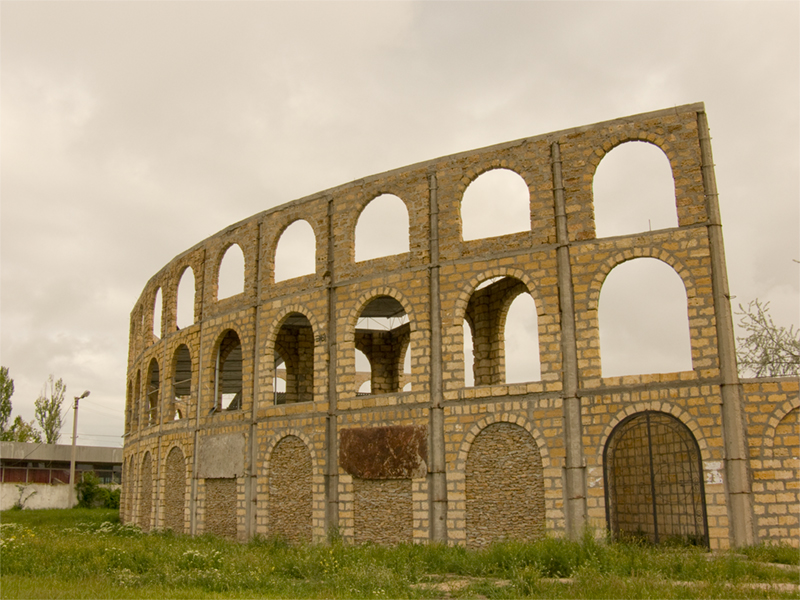 Coliseum Disco in Prymorskoe